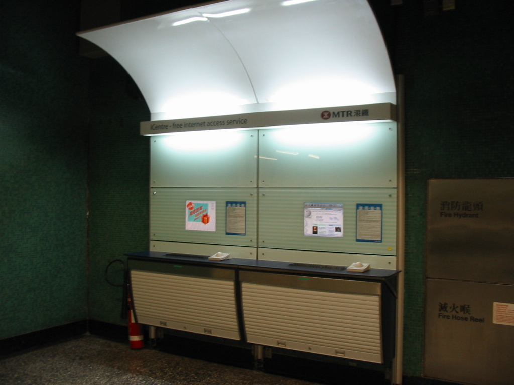 An Internet kiosk in paid area of MTR Quarry Bay Station